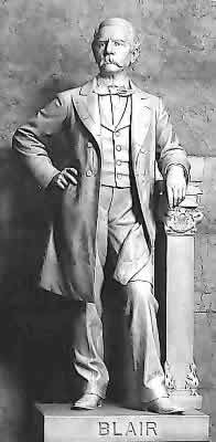 statue of Francis Preston Blair, Jr. by Alexander Doyle in the National Statuary Hall Collection of the U.S. Capitol